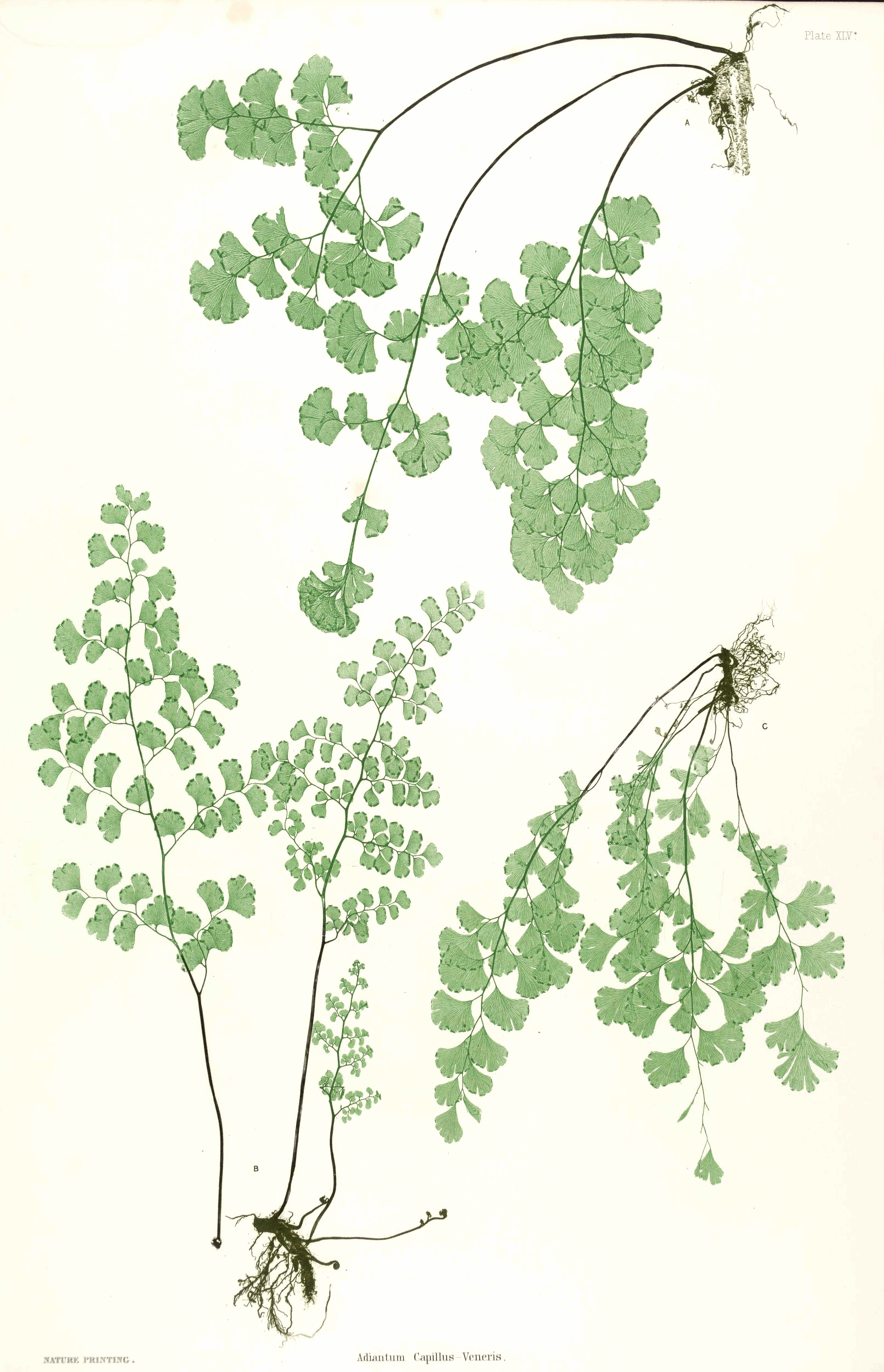 Botanical illustration of Adiantum capillus-veneris — Maidenhair fern. Plate from the book The Ferns of Great Britain and Ireland by Thomas Moore.